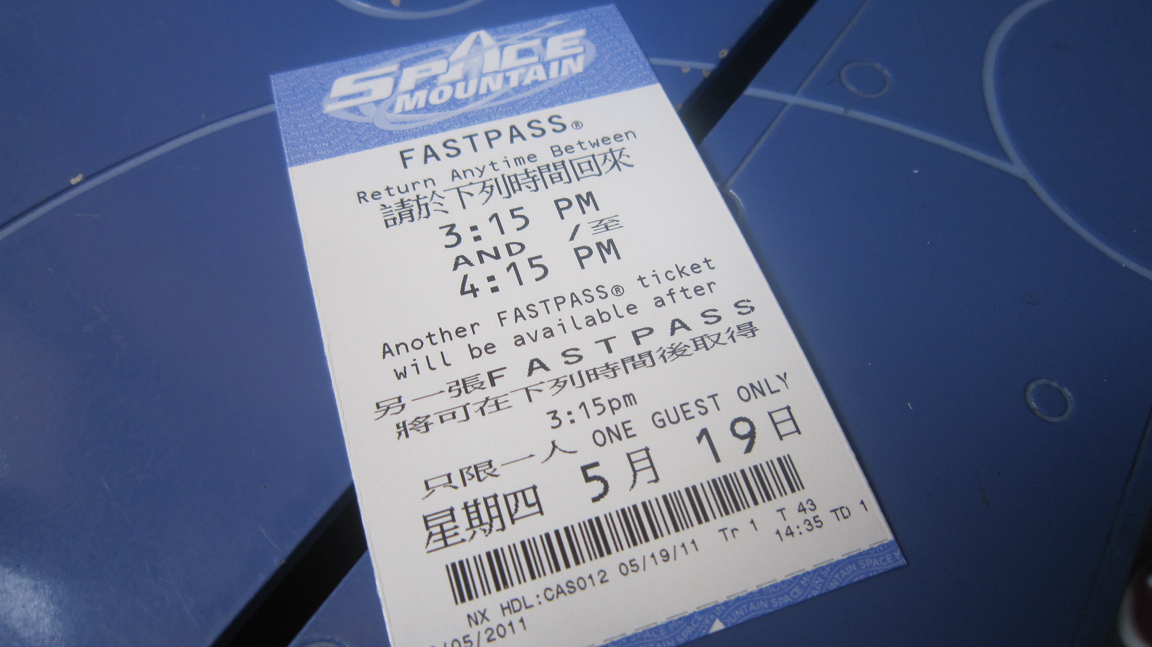 A FastPass of Space Mountain at Hong Kong Disneyland